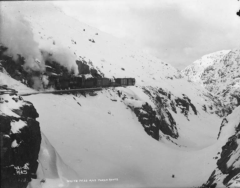 Location unidentified . Caption on image: "White Pass and Yukon Route" Original image in Hegg Album 3, page 15. Original photograph by Eric A. Hegg 125B; copied by Webster and Stevens 421.A. Subjects (LCTGM): Railroads; Railroad tracks; Railroad locomotives Subjects (LCSH): White Pass & Yukon Route (Firm)